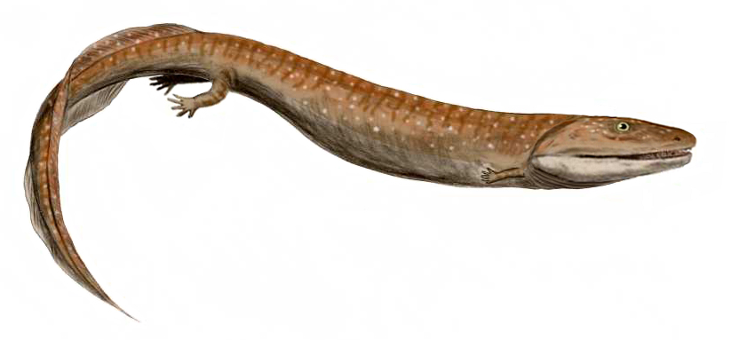 Crassigyrinus scoticus, a carboniferous early tetrapod from Scotland